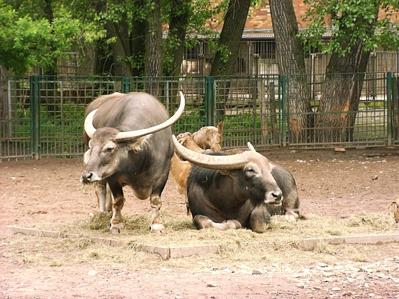 Asiatic water buffalo and goats in zoo Tierpark Berlin-Friedrichsfelde, Berlin, Germany.